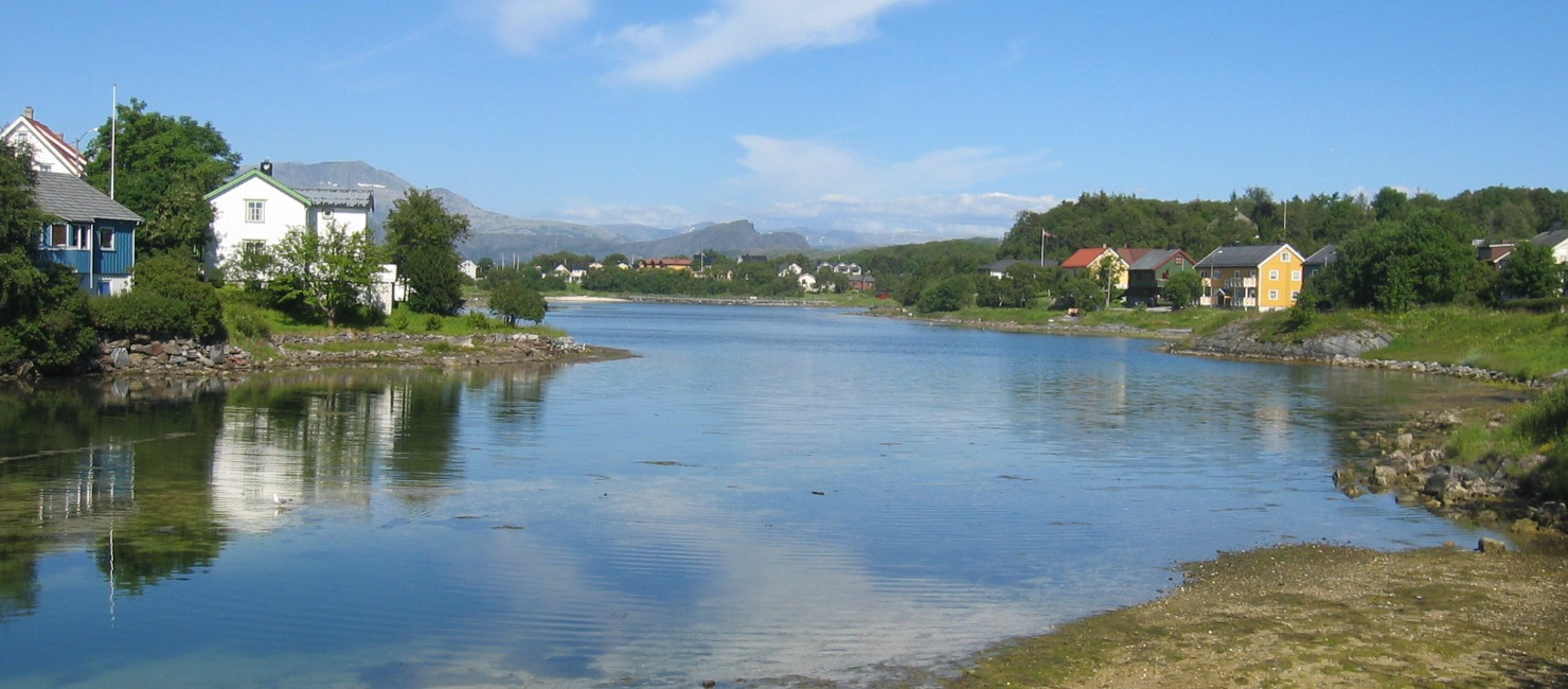 The Frøkenosen semi-saline lake in Brønnøysund, Norway, as seen from the south end.